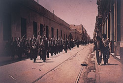 Coup d'etat in Argentina in 1930